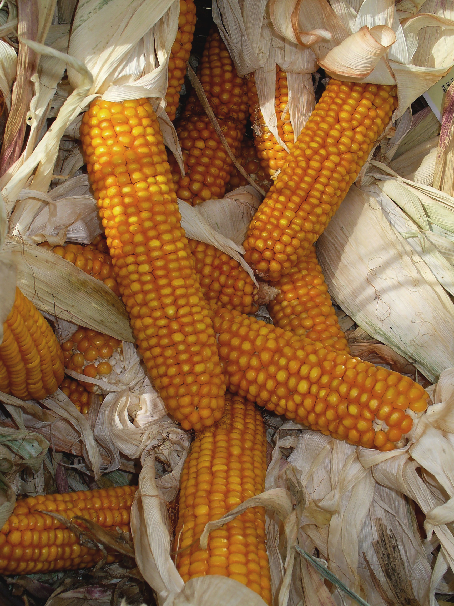 Zea mays, Poaceae, Maize, corn cobs. Karlsruhe, Germany.